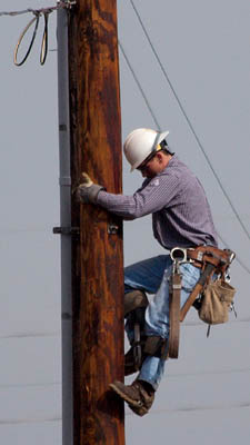 Cropped version:A worker climbing down an electricity pole, taken in Urbana, IL